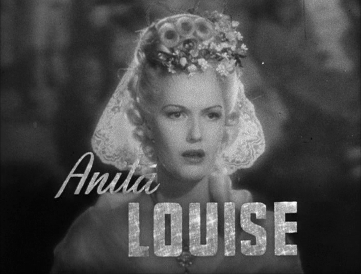 Cropped screenshot of Anita Louise from the trailer for the film Marie Antoinette